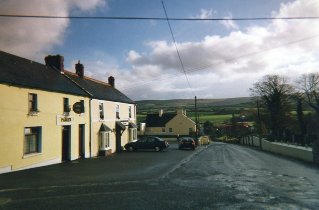 Village of Kilflynn, near to Kilflyn, Glanballima, Knockbrack, Cappagh and Garryhagore, Ireland. Looking towards Stacks Mountains